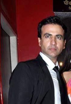 Gaurav at the premeire of "Ishq In Paris"